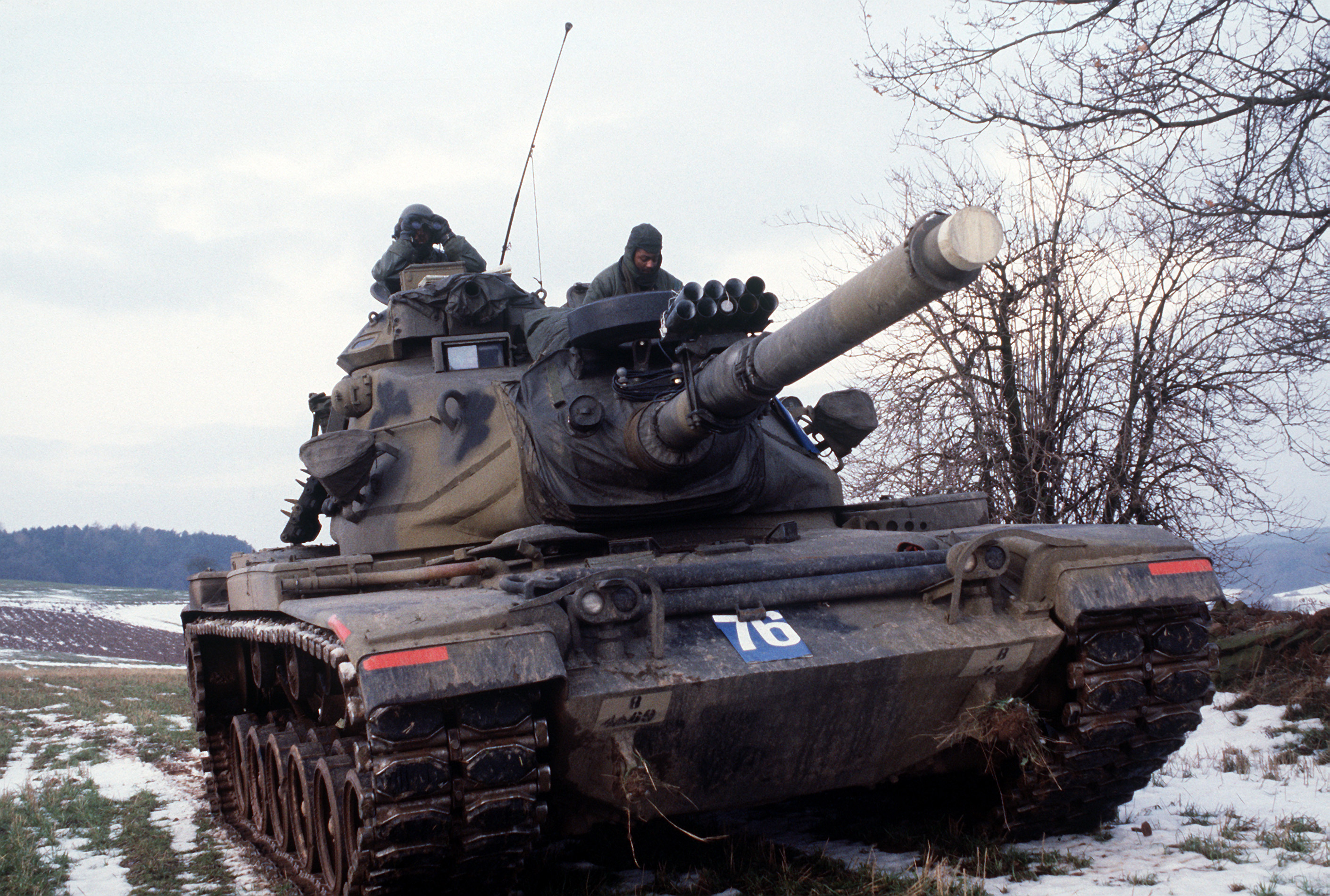 The commander of an M60A3 main battle tank of 4th Battalion, 69th Armor, part of the 1st Brigade, 8th Infantry Division, searches for opposing force positions during CENTRAL GUARDIAN, a phase of Exercise REFORGER '85 near Giessen, Hesse, Germany.